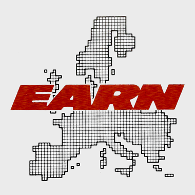 Logo of the EARN Association (Scan of EARN brochure front page); EARN: European Academic and Research Network (1984 - 1994).